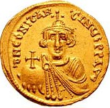 Heraclonas. 641 AD. AV Solidus (4.47 gm). Constantinople mint. dN CONSTAN TINUS PP AVG, small crowned facing bust, holding globus cruciger.Philip Grierson in the Dumbarton Oaks catalogue attributes the small narrow bust solidi to Heraclonas, who reigned for six months in 641. Although not generally accepted, this attribution is plausible, and the scarcity of the types suggest it was a very brief issue. These solidi have also been dated to the early reign of Constans II, ca. 642-645.